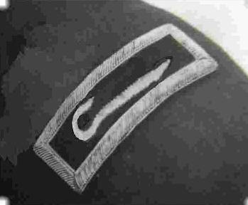 Photo of the "Shepherd's Crook," the original insignia authorized for U.S. Army Chaplains 1880-1888.